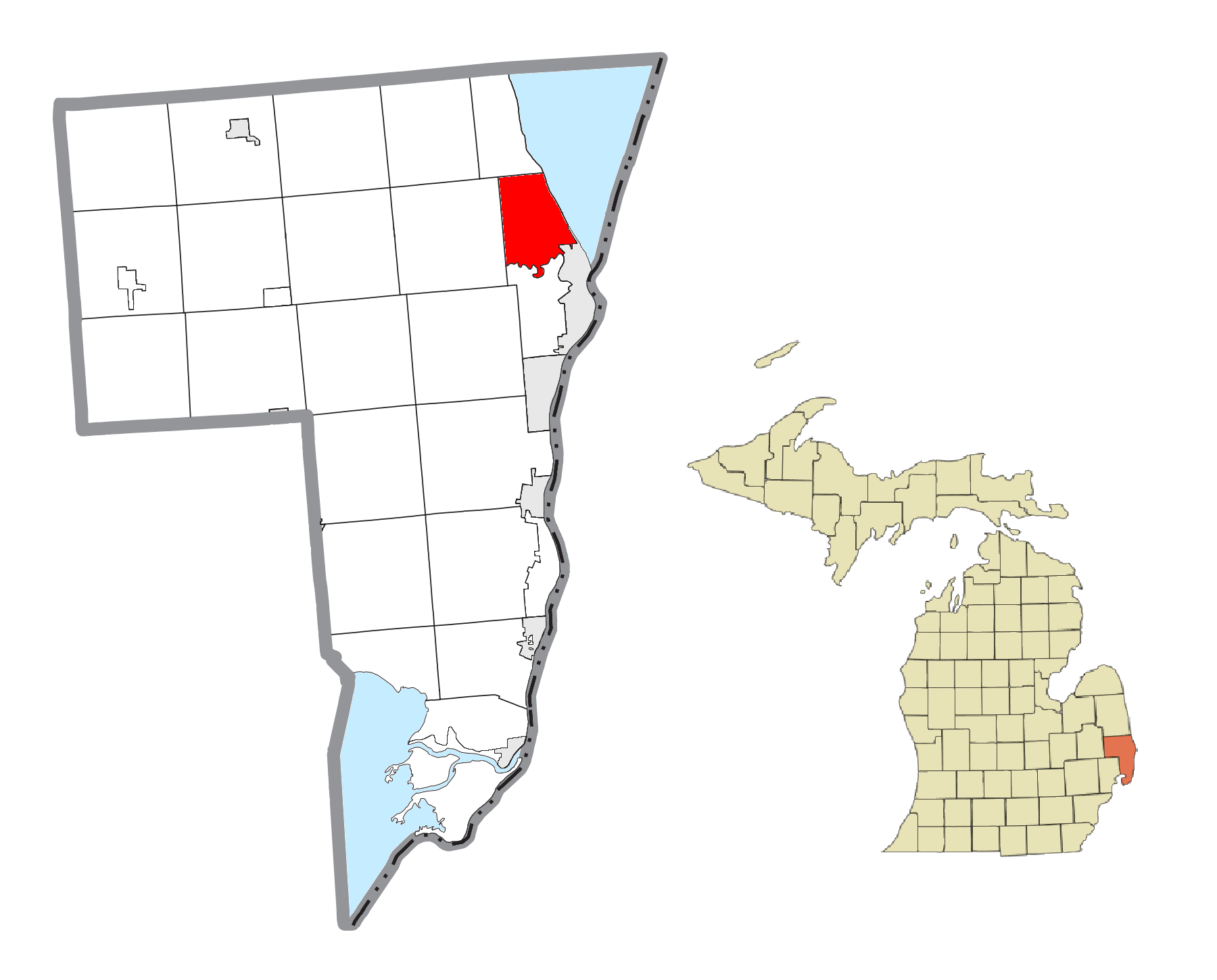 Fort Gratiot Charter Township, MI